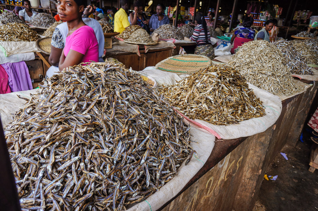 Dried sambaza fish, Kigali, Rwanda This is an image of food from Rwanda